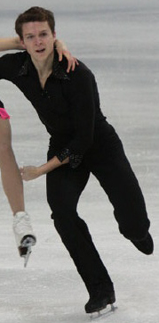 2009 European Figure Skating Championships - Erica Risseeuw and Robert Paxton